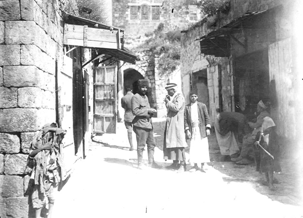 A street scene in Jenin. An Ottoman soldier (center left) with a local resident (center right) in a bazaar in Jenin